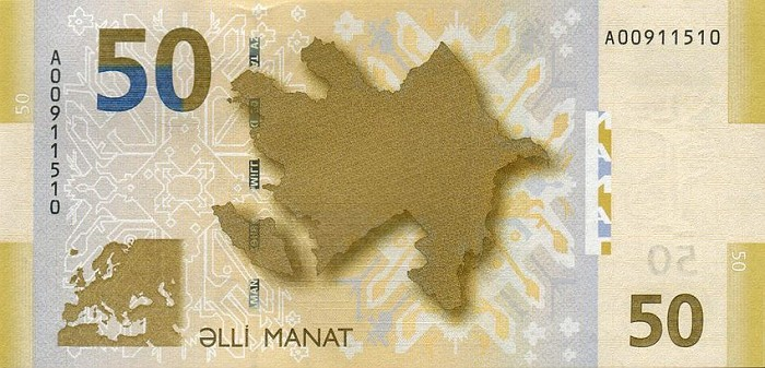 reverse of 50 AZN